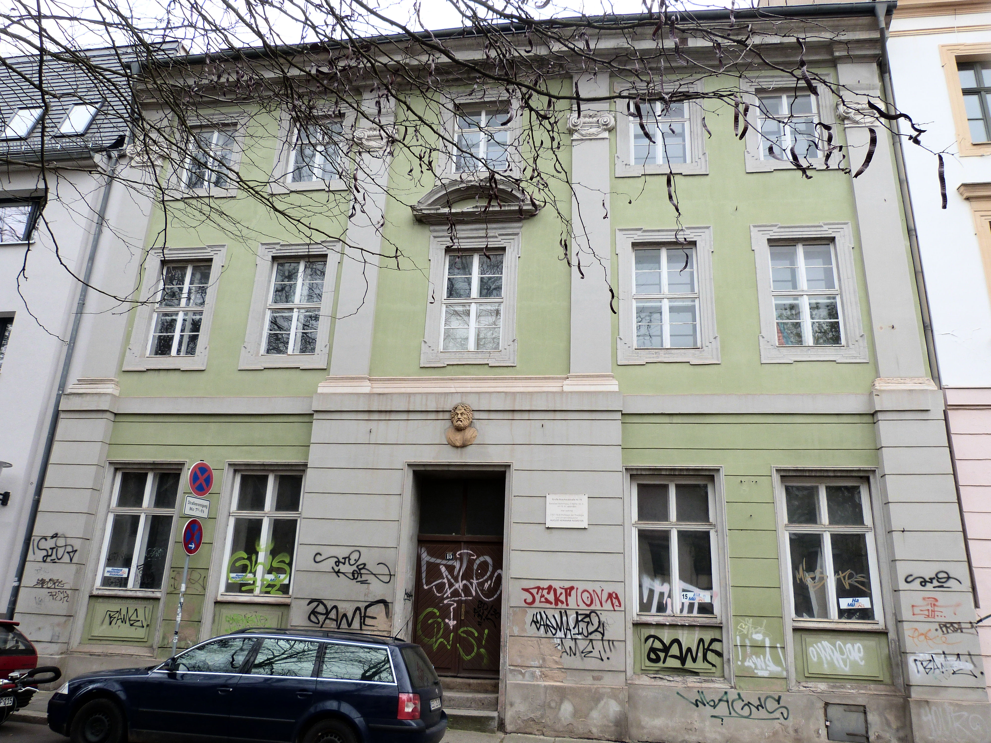 House No. 15 Grosse Brauhausstrasse, Halle (Saale)